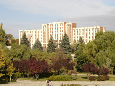 Government building Tiraspol